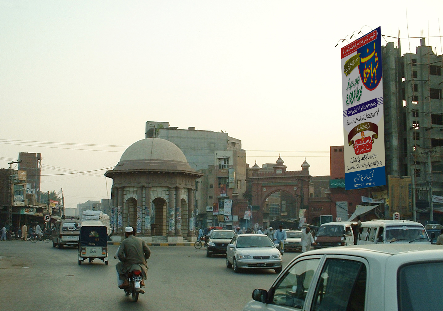 The Faisalabad Gumti situated out side of Rail Bazar